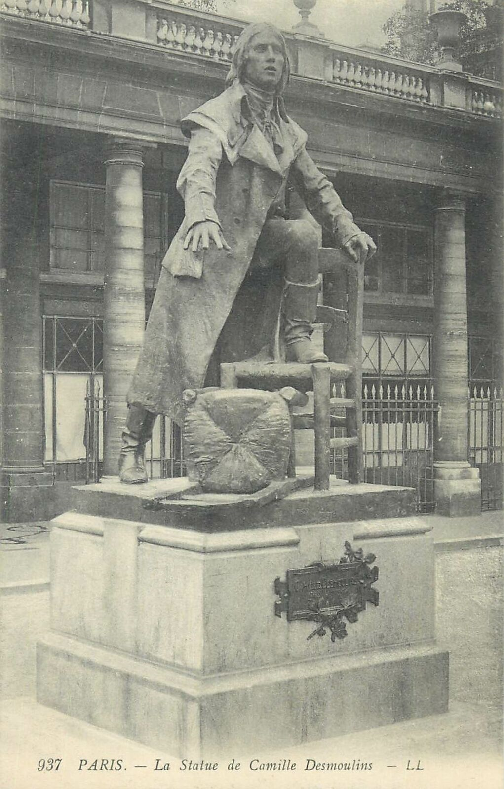 Carte postale : Monument à Camille Desmoulins by Eugène-Jean Boverie, bronze erected in the Palais-Royal Gardens, melted in 1942.